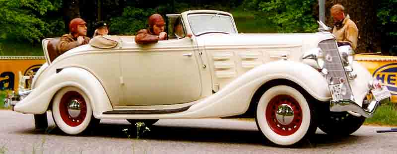 Hudson Eight Convertible Coupé 1934 (with a rumble seat)